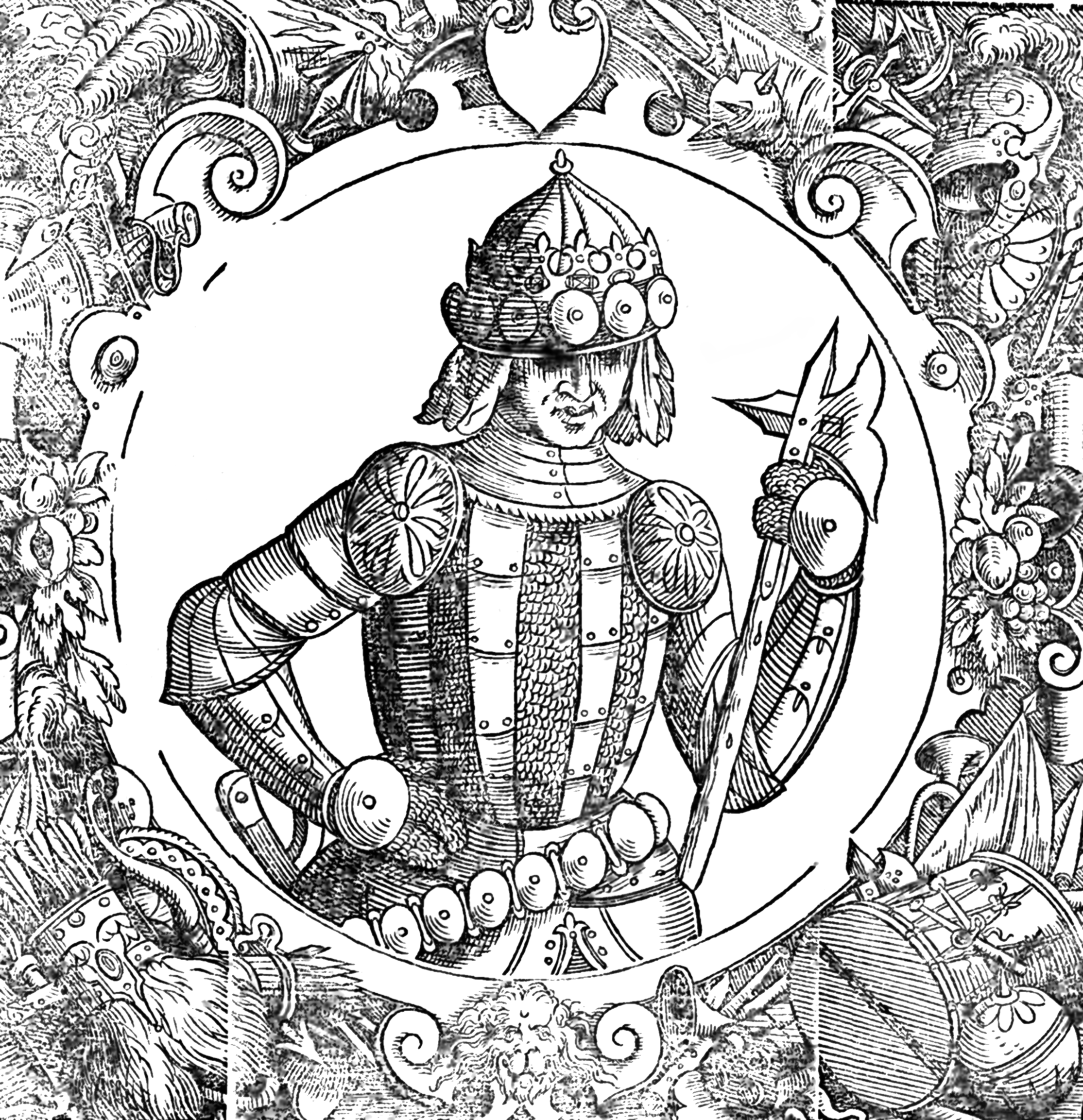 Casimir II of Poland inSarmatiae Evropeae Descriptio